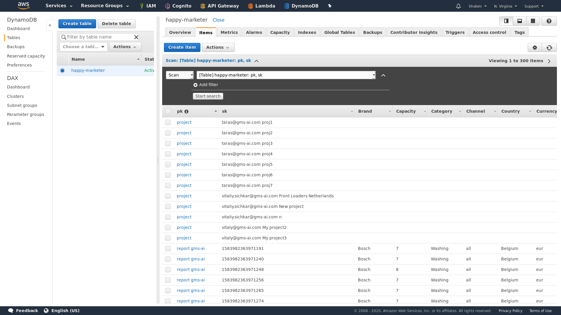 DynamoDB admin console